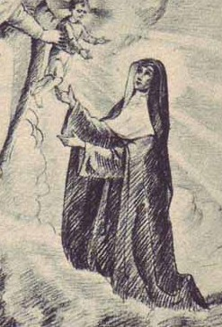 Alix Le Clerc Lorraine Nancy Famille Le Clerc